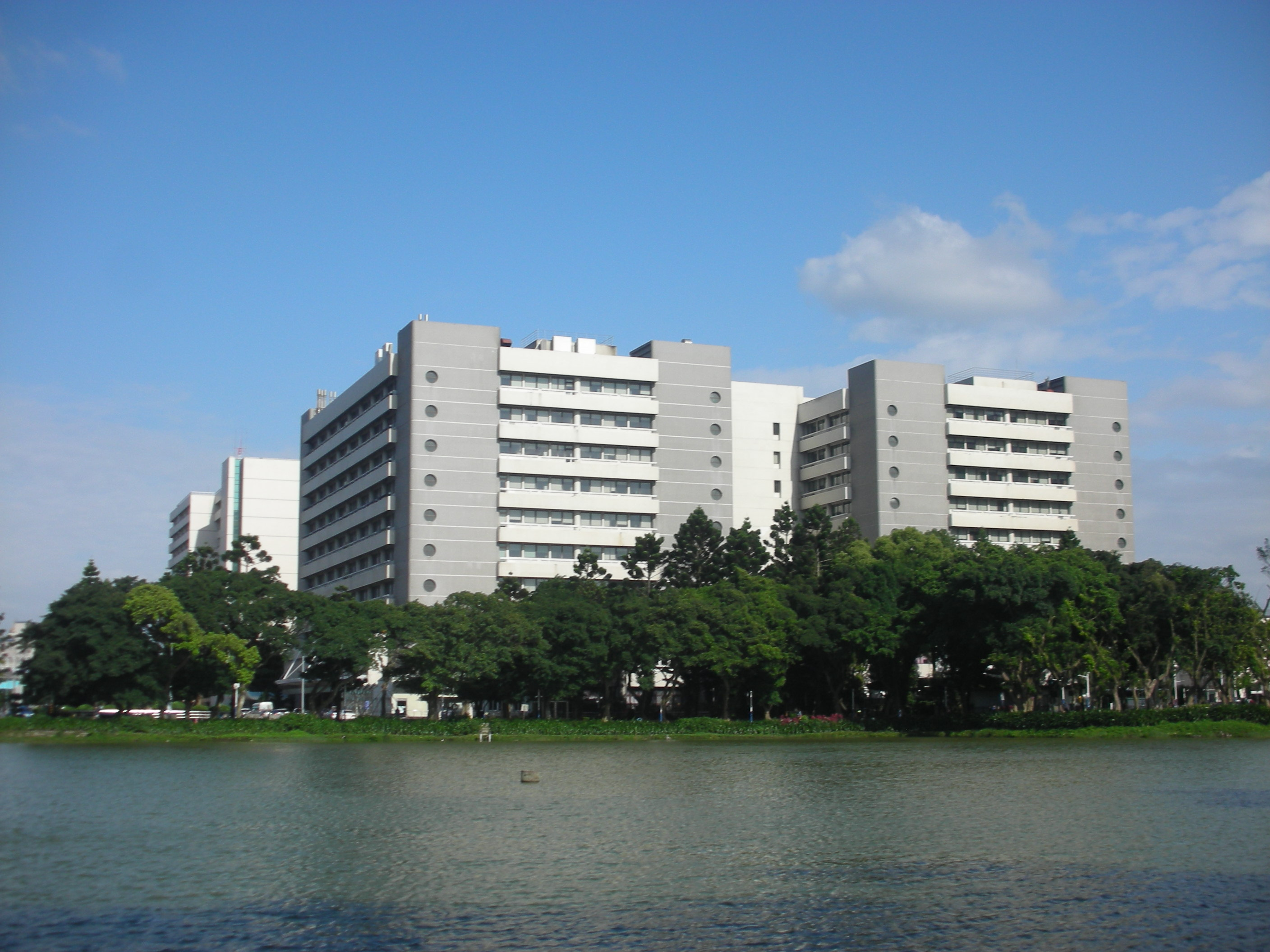 Linkou Chang Gung Memorial Hospital in Guishan District, Taoyuan City, Taiwan.